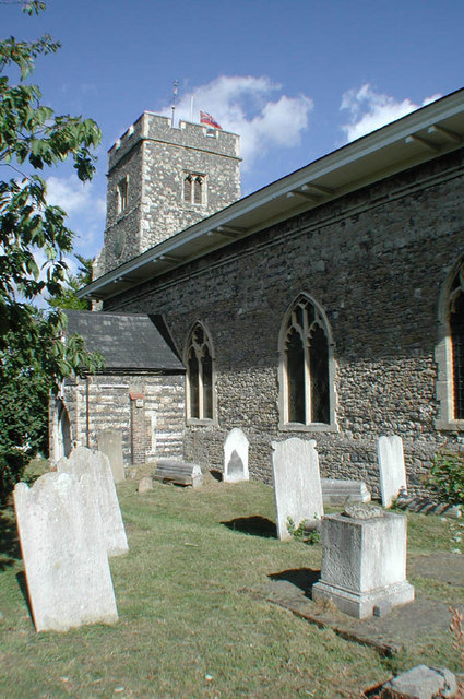 Part of the parish church of SS Peter and Paul, Milton-next-Gravesend, Kent, including the west tower and south porch, seen from the southeast